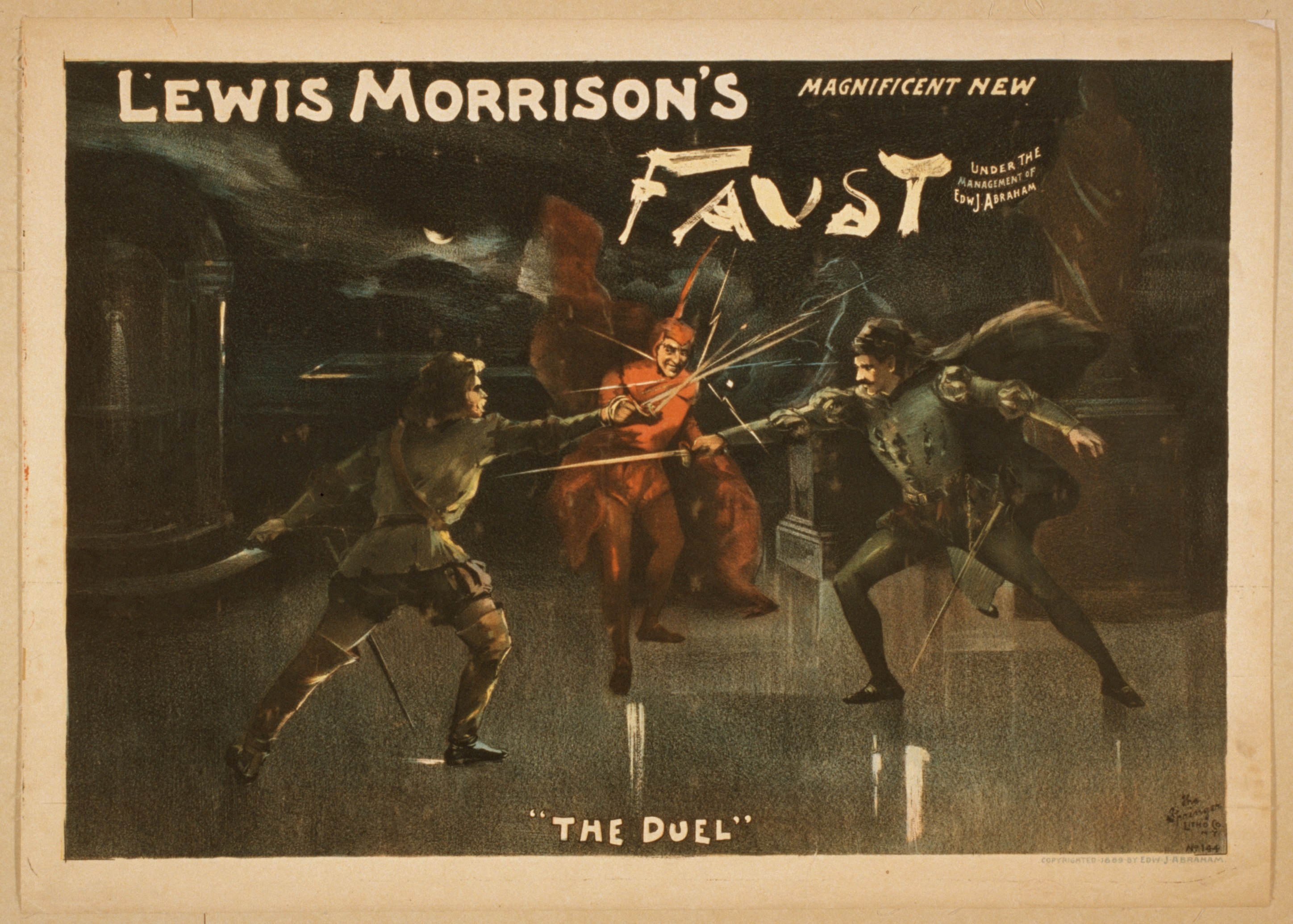 Title: Lewis Morrison's magnificent new Faust Abstract/medium: 1 print : color lithograph ; sheet 52 x 72 cm. (poster format)